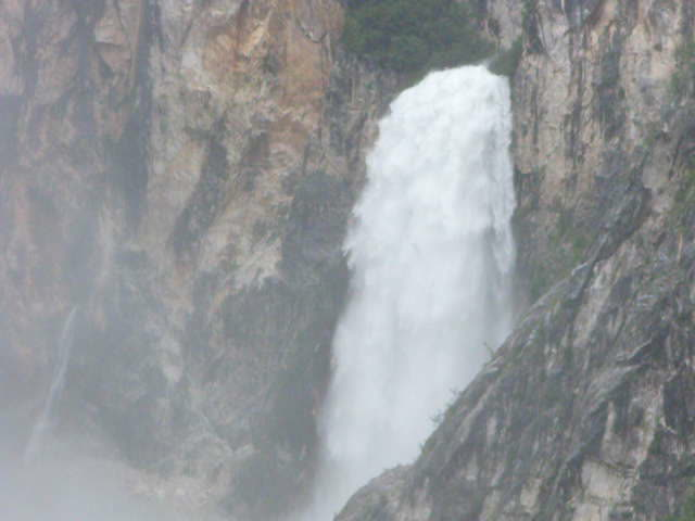 July 2012 The waterfall Boka is one of the most fluid in Slovenia and one of the most spectacular in Europe. The water falls freely 106 m and immediately after that another 30 m in an incline. It is 18 meters wide. The flow rate is highest in spring and autumn, reaching up to 100 m³/s, The Boka waterfall is the source of the Boka river, the water flow is coming out from a cave opening on the rocky mountain slope.